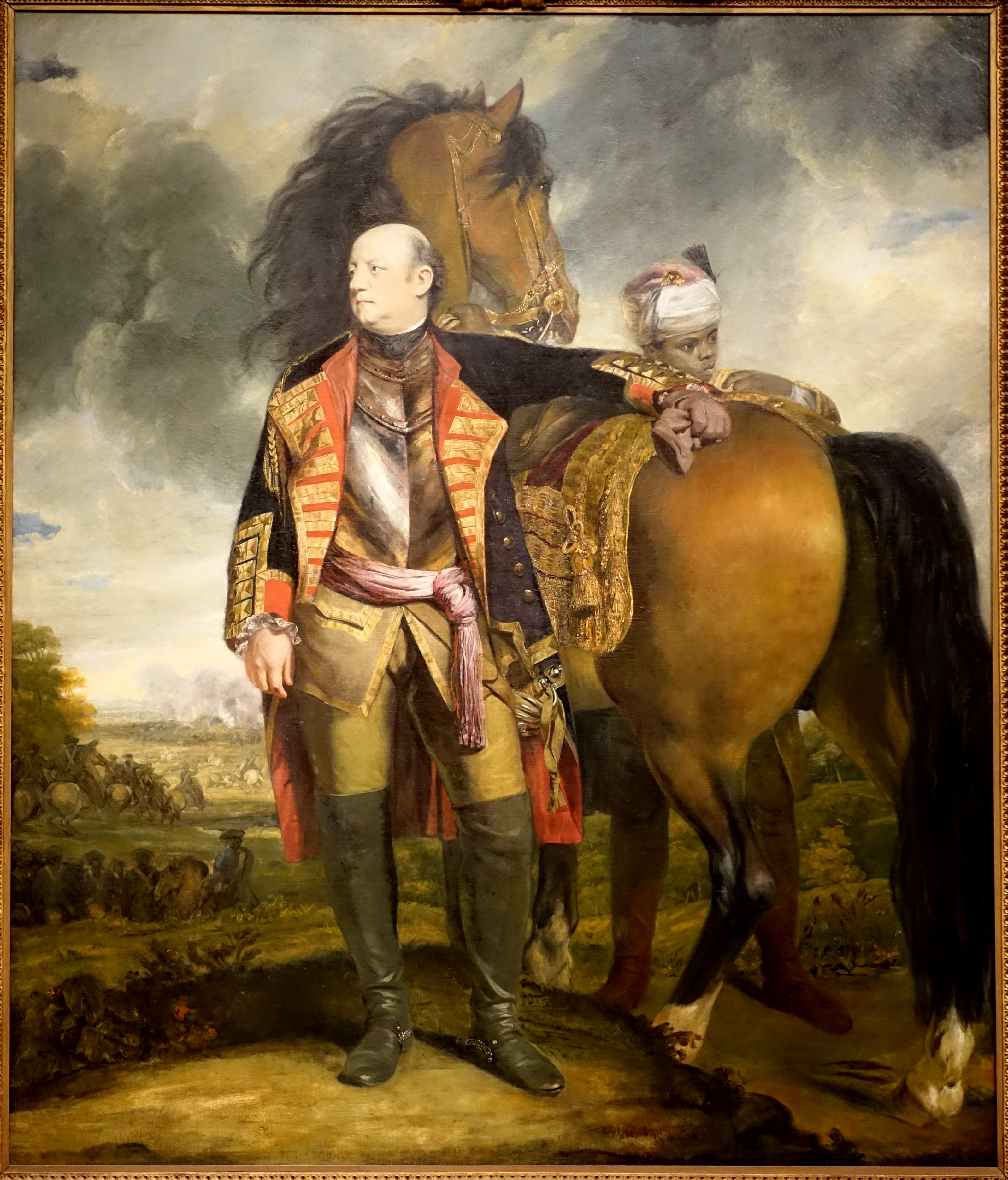 Exhibit in the John and Mable Ringling Museum of Art - Sarasota, Florida, USA.